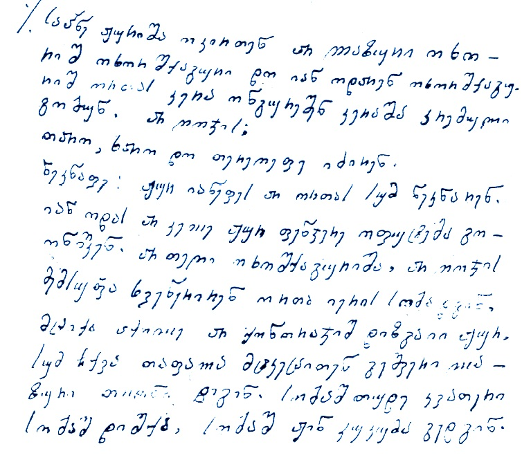 Famous Laz (Georgian) painter and poet Hasan Helimishi's (geo./laz.: ჰასან ჰელიმიში; tr.: Hasan Helimişi; 1907-1976) Lazuri writings with Georgian alphabet (Mkhedruli).